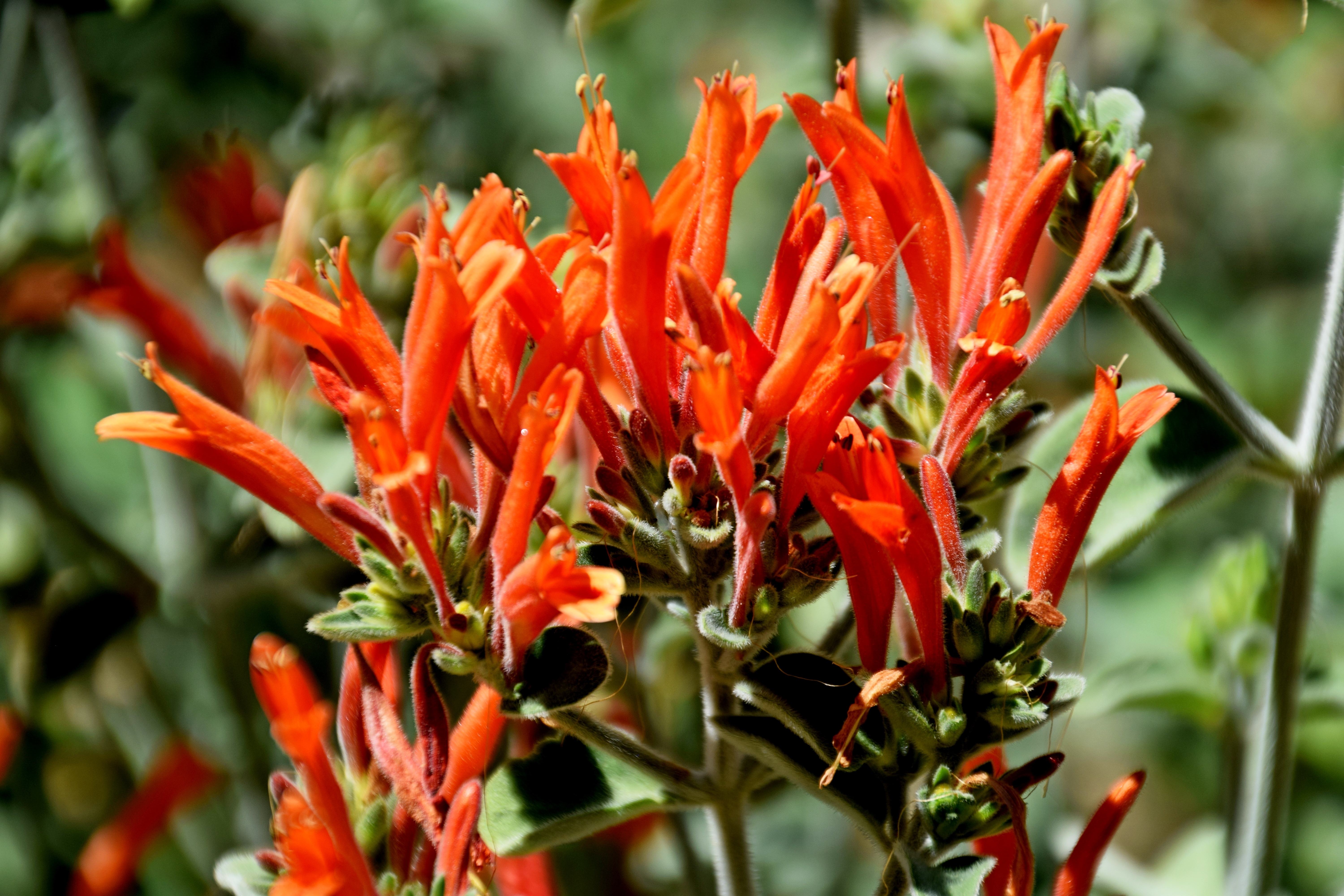 Dicliptera squarrosa in Jardin des plantes de Montpellier